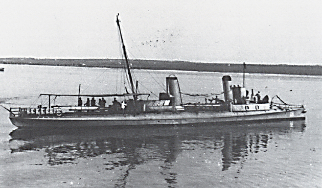 Austro-Hungarian torpedoboat (Number 18 torpedoboat ex Natter) - copyright expired